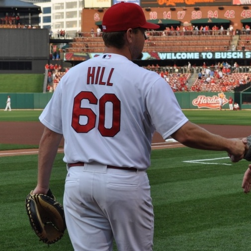 Spc. Carl Byington, a military policeman assigned to the 13th Military Police Company and St. Louis native, shakes hands with St. Louis Cardinals’ catcher Steven Hill at Busch Stadium May 25, 2012. Byington is one of 13 soldiers from his company that were recognized during the FOX Sports Midwest “This One’s For You” military appreciation pre-game show.